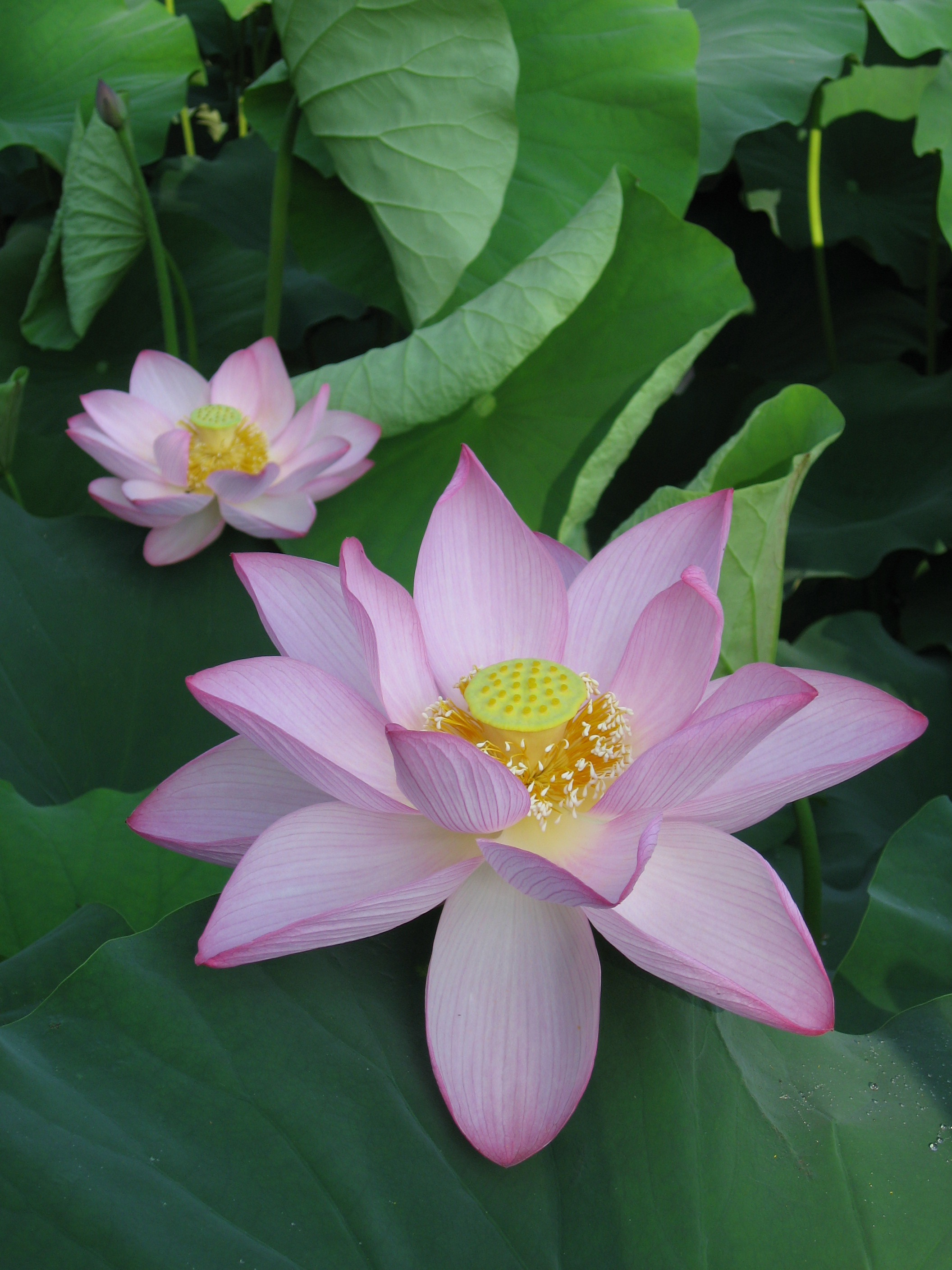 Ōgahasu(The type of Nelumbo nucifera has its origin at Ancient Japan) The ruins of Tamaru Castle, Tamaki Watarai Mie, Japan